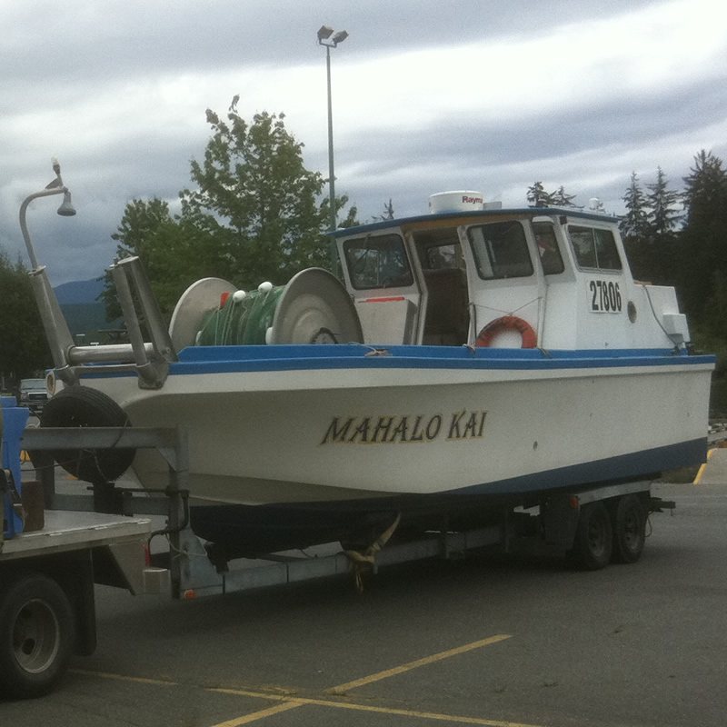 Image of a contemporary fibre glass commercial salmon bow picker on a trailer. This boat is a common design found in the waters of British Columbia, Canada. The gill net is evident on the metal drum located in the bow of the boat. The gill net is set & picked up between the vertical guides and setting and pick up is aided by the horizontal roller. The bow picker generally has a set of steering and directional controls in the bow.